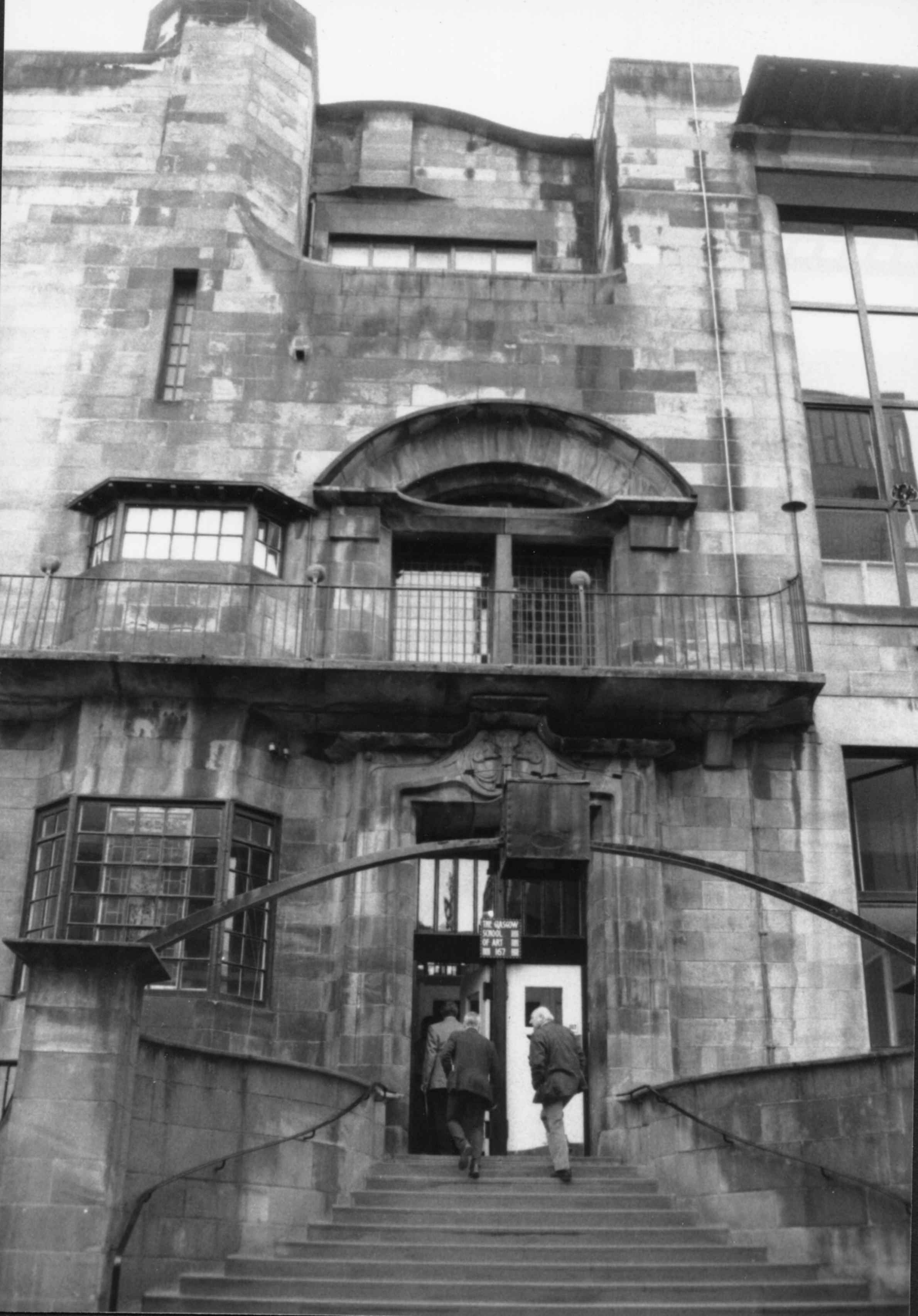 Glasgow School of Art - Mackintosh Building (entrance)